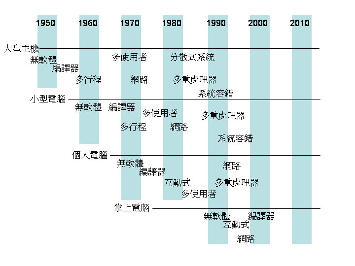 作業系統的發展歷史會不斷重複出現在新的電腦平台上，此亦為電腦作業系統的發展時間線。 Sliberschatz, Galvin, and Gagne 的Operating system concepts 6th.Edition psge 20.的Figure 1.6之簡化圖片，由zh:User:Neversay.misher手工重繪。本檔案其他版 User:Neversay.misher